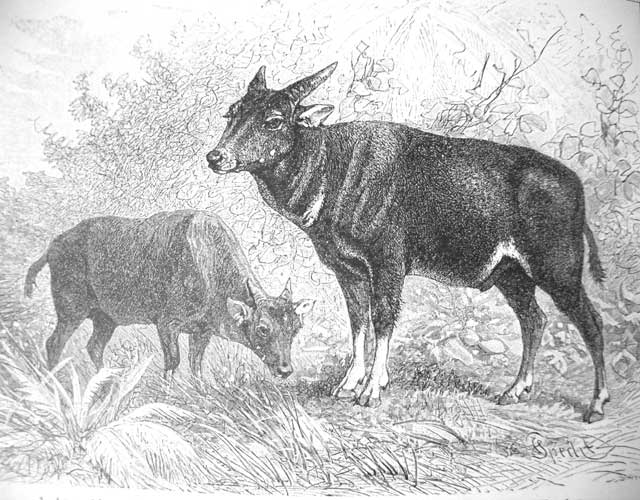 Description: Drawing of a lowland anoa, Anoa Description in the original works (translated): (Anoa depressicornis). Body length 1,50 m, tail length 0,30 m, height 1 m